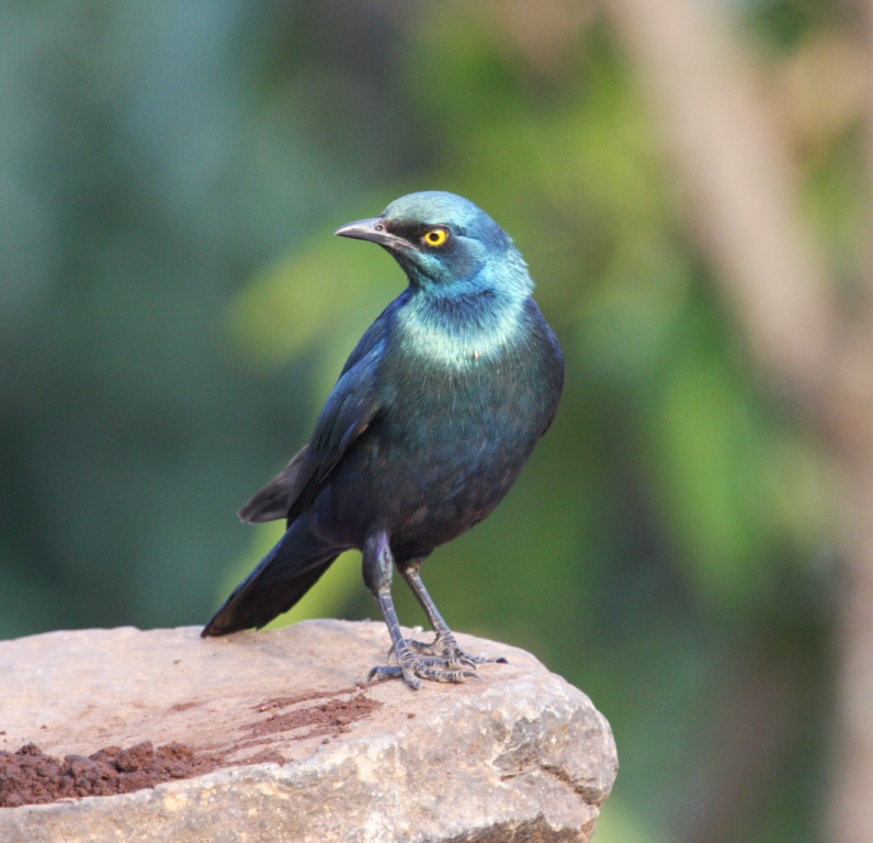 Blue-eared Starling (Lamprotornis calybaeus - kyläloistokottarainen Fi) on a field in Bahir Dar, south-west coast of Lake Tana, Ethiopia.